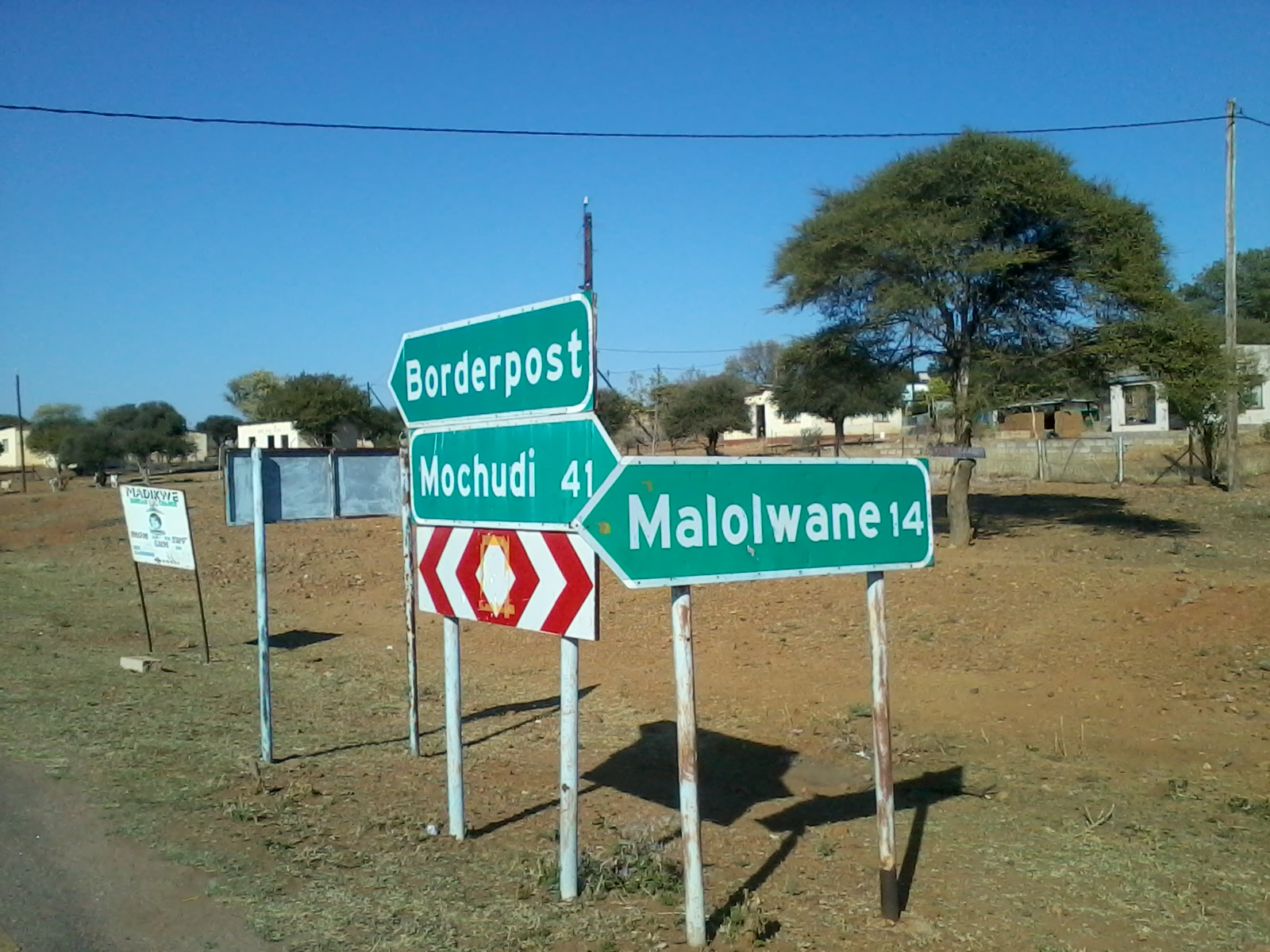 Malolwane 14km, north of Sikwane, Kgatleng District. This is an image of Cultural Fashion or Adornment from Botswana